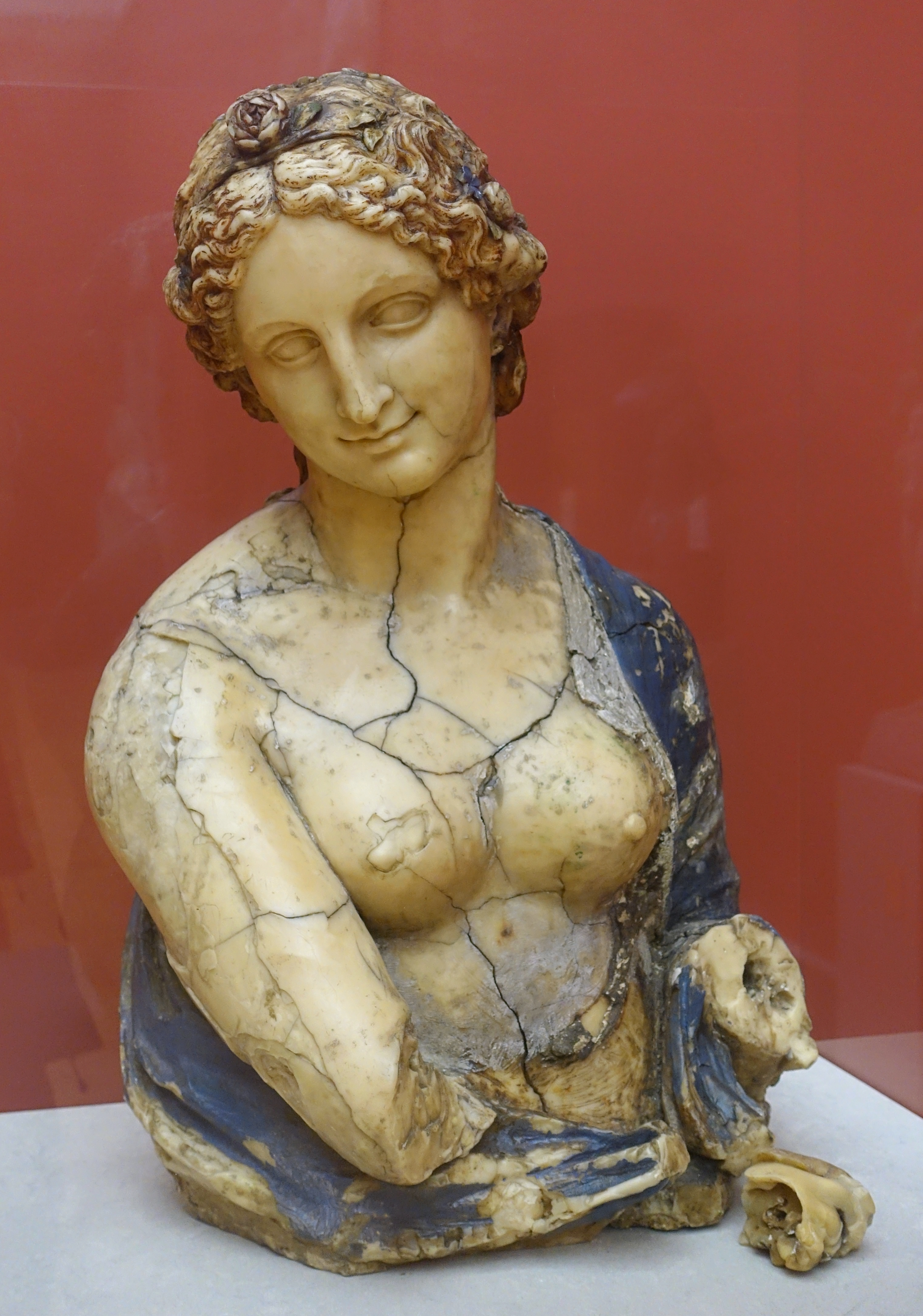 Exhibit in the Bode-Museum, Berlin, Germany. This work is in the public domain because the artist died more than 100 years ago.